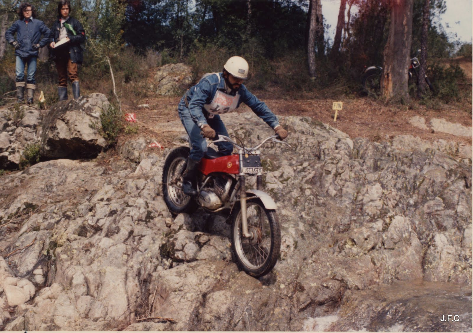 Joan Font on his Montesa Cota 123 at the 1975 Trial de Mollet (Catalonia)